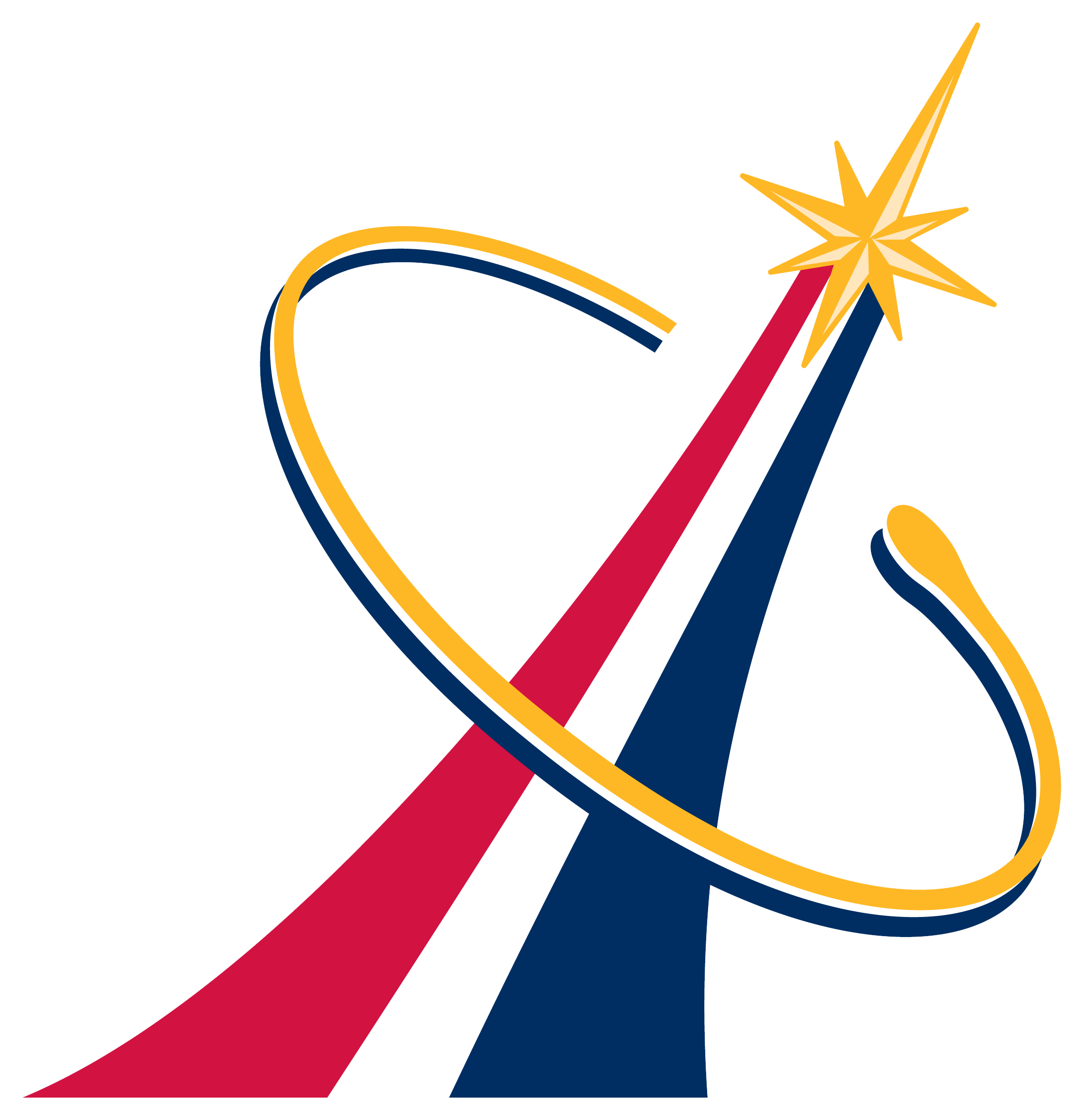 CAPE CANAVERAL, Fla. – The Commercial Crew Program logo is derived from the NASA flight crew symbol as the foundation for the program. The red/white/blue swoosh illustrates an American-led capability. The star depicts a future vehicle emerging from the overlapping double C's representing the Commercial Crew Program. The goal of NASA’s Commercial Crew Program is to have a commercially developed, human-capable, certified spacecraft safely flying astronauts into orbit and to the International Space Station by the middle of the decade. For more information about NASA's Commercial Crew Program, visit